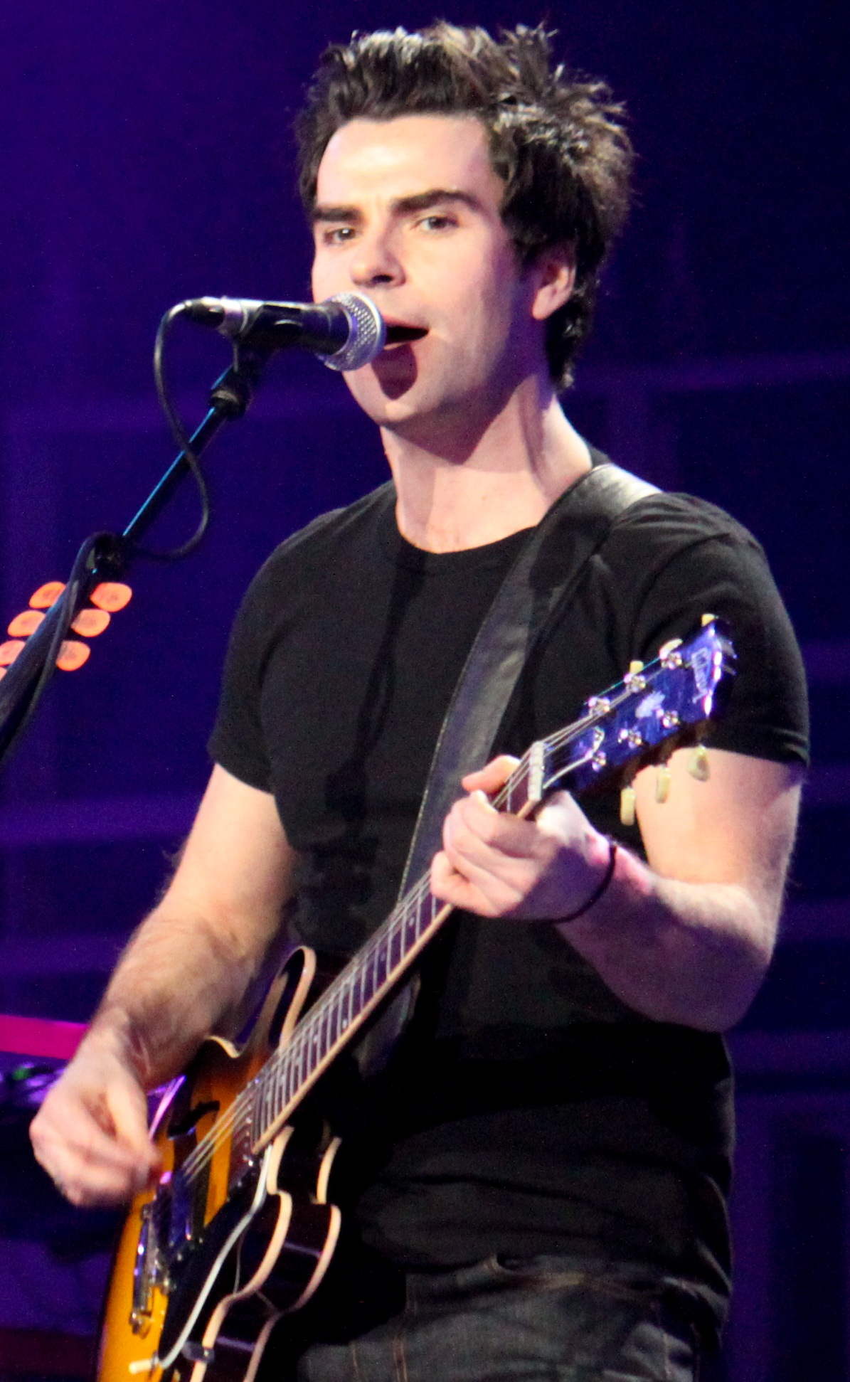 Kelly Jones performing at the Vancouver Olympics 2010 Camera: Canon EOS REBEL T1i License on Flickr (2012-01-09): CC-BY-SA-2.0